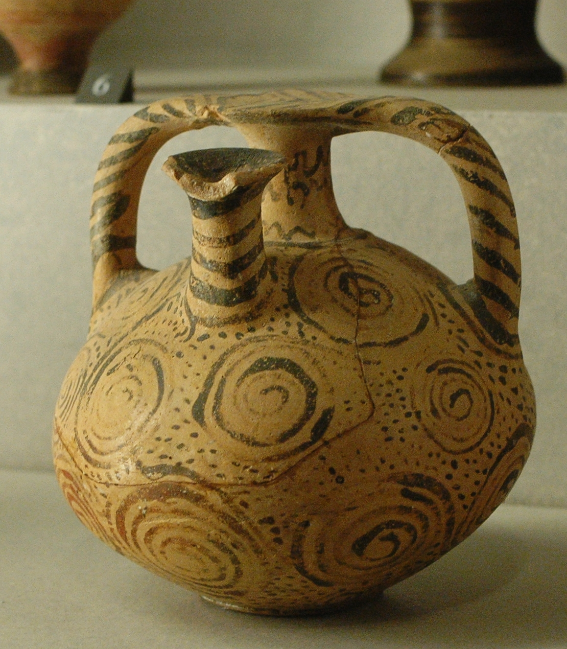 Stirrup vase from Rhodes. Terracotta, Late Helladic III (14th–13th centuries BC).